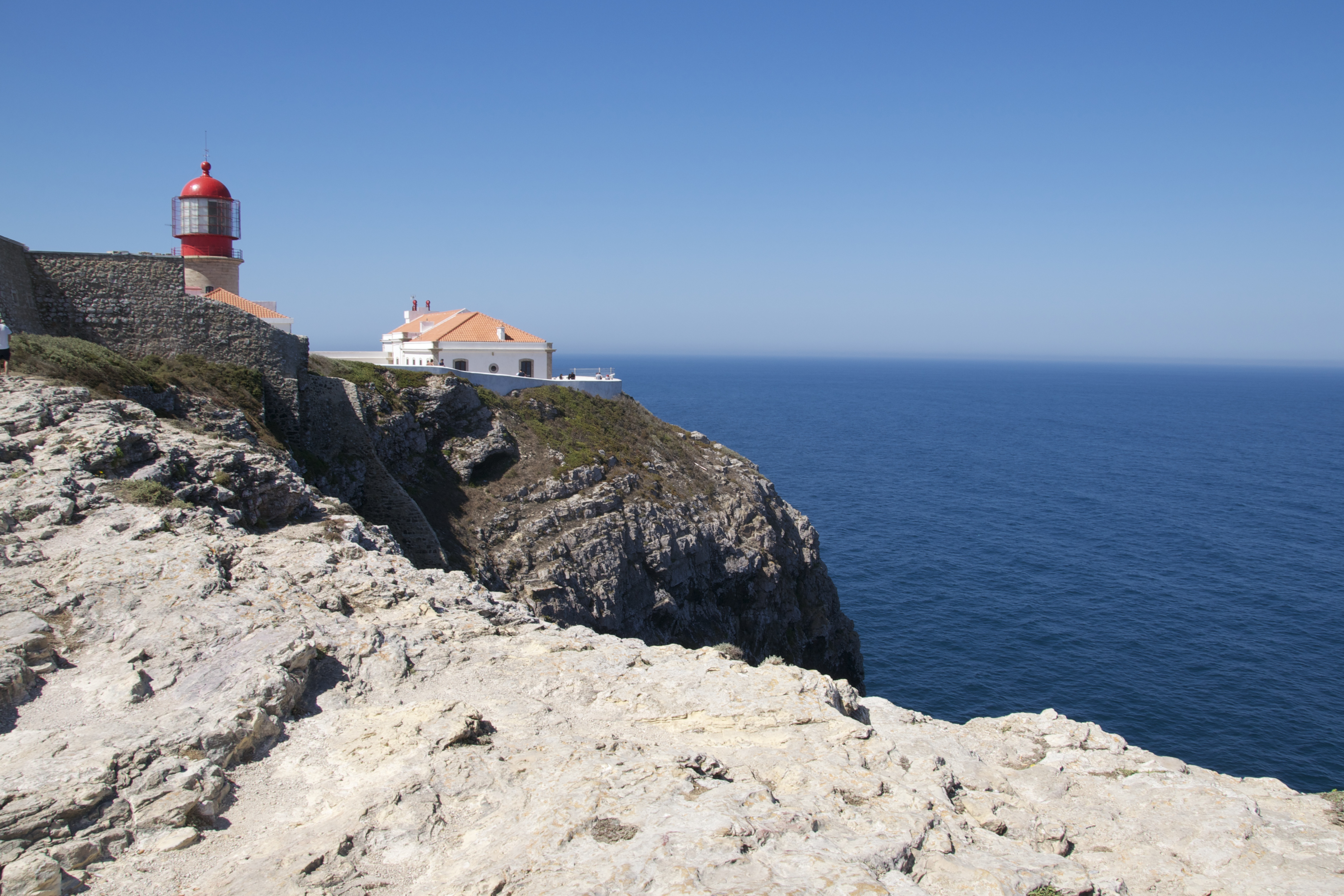 Cabo de São Vicente, Portugal. August 2016